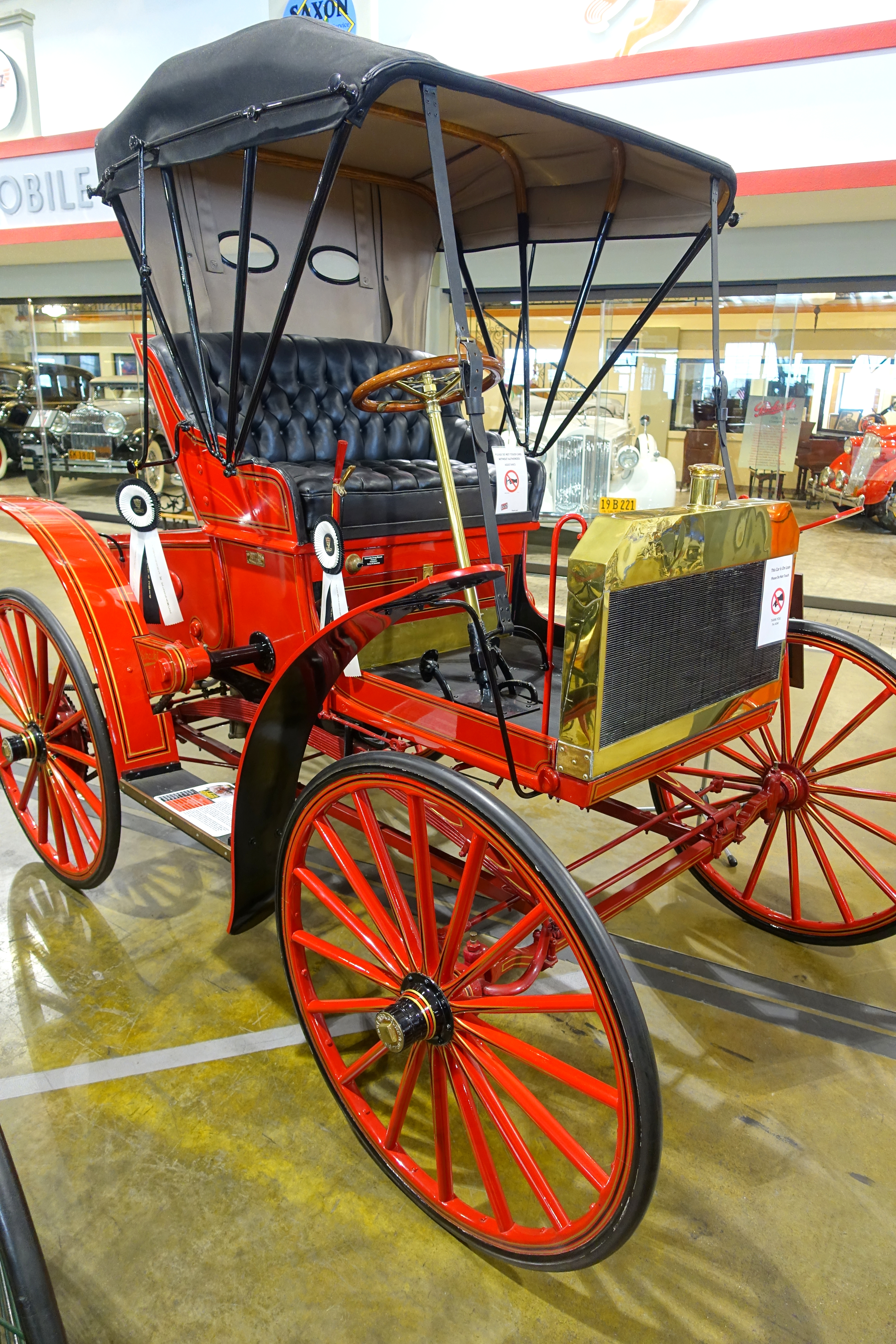 Exhibit in the Automobile Driving Museum - El Segundo, California, USA.